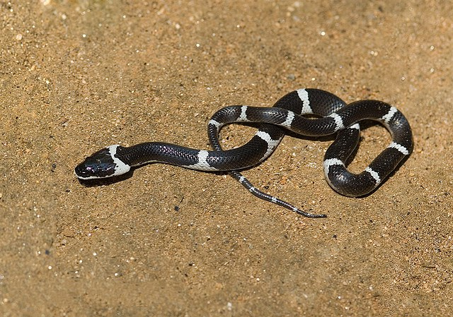 A melanistic L. aulicus from Sholayar forests, Kerala.